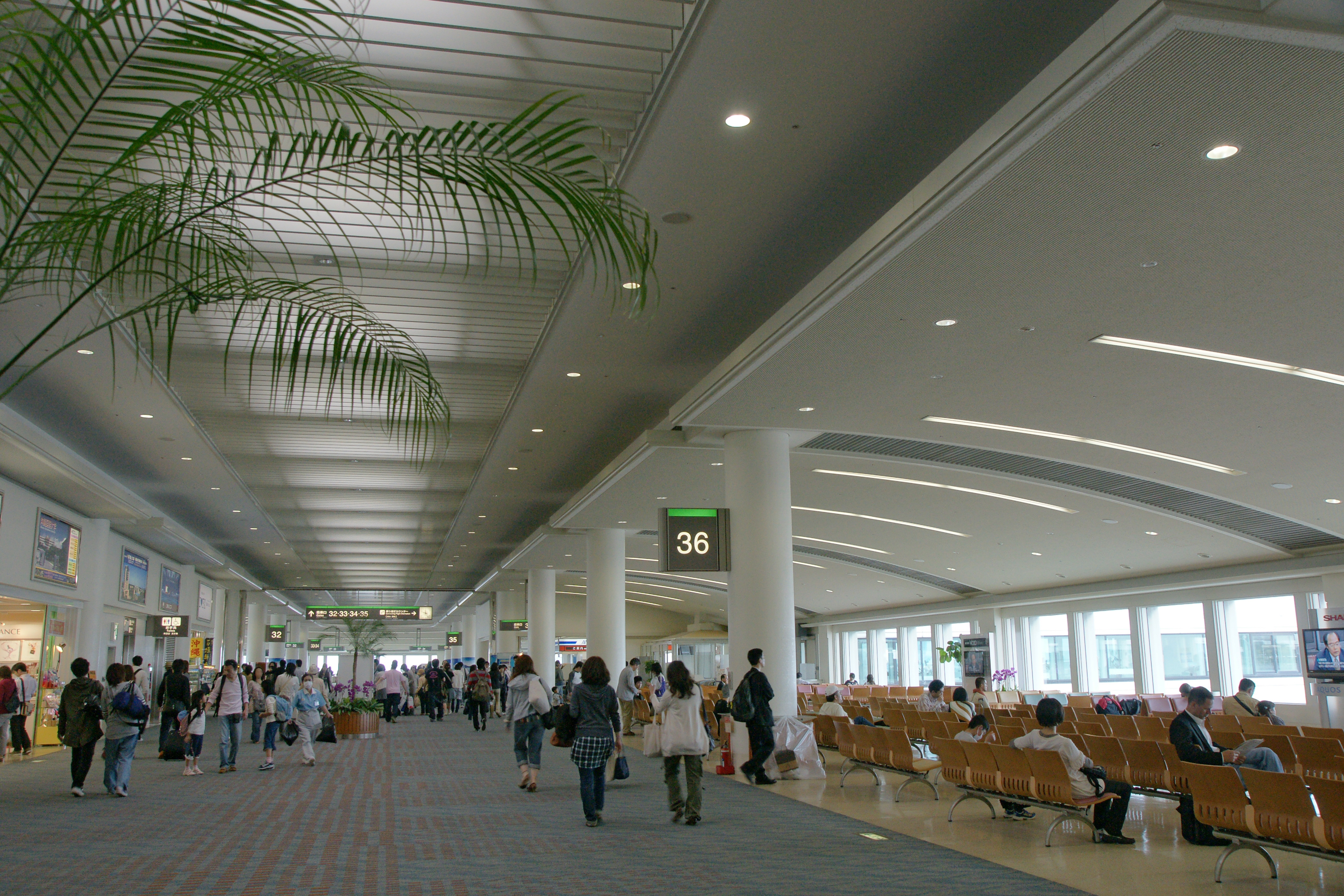 Naha Airport, Naha, Okinawa prefecture, Japan